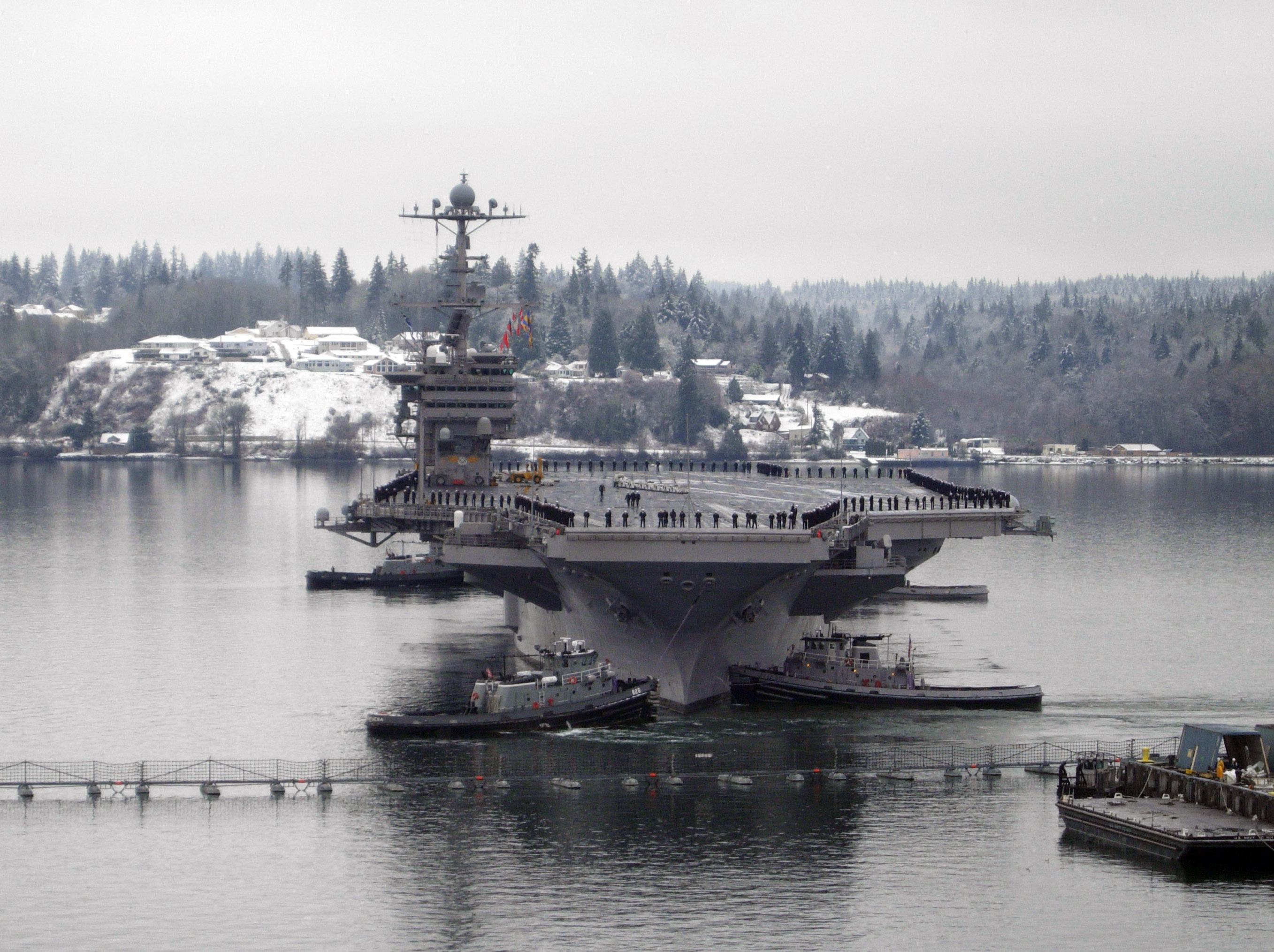 Bremerton, Wash. (Jan. 16, 2007) - Nimitz-class aircraft carrier USS John C. Stennis (CVN 74) pulls out of Naval Base Kitsap Bremerton into Sinclair Inlet as the crew begins their scheduled deployment. U.S. Navy photo by Mass Communication Specialist 1st Class Johnnie Robbins (RELEASED)